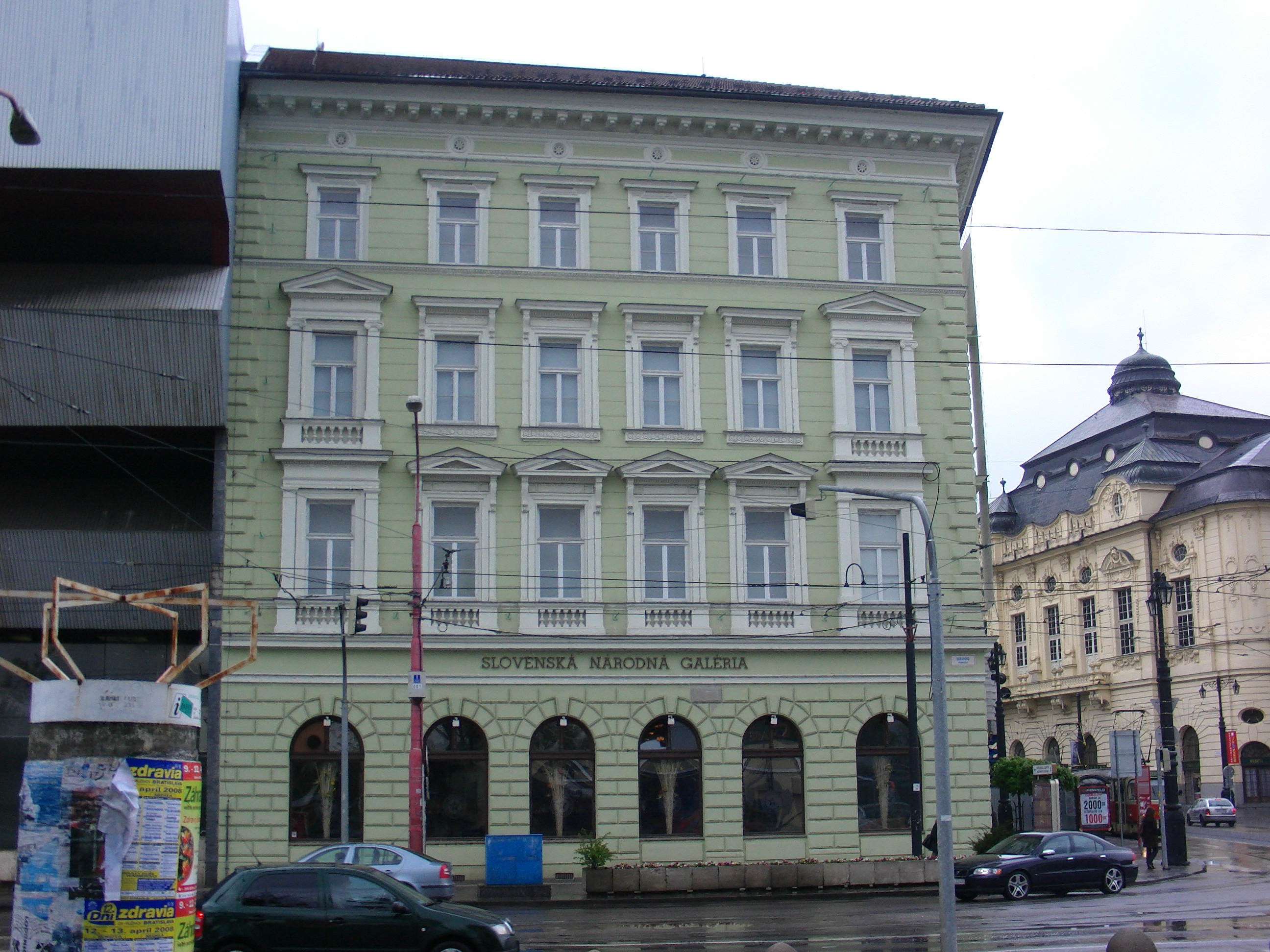 The Slovak National Gallery, Bratislava, Slovakia